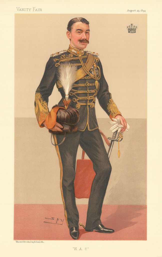 Caricature of Rudolph Feilding, 9th Earl of Denbigh. Caption read "HAC".